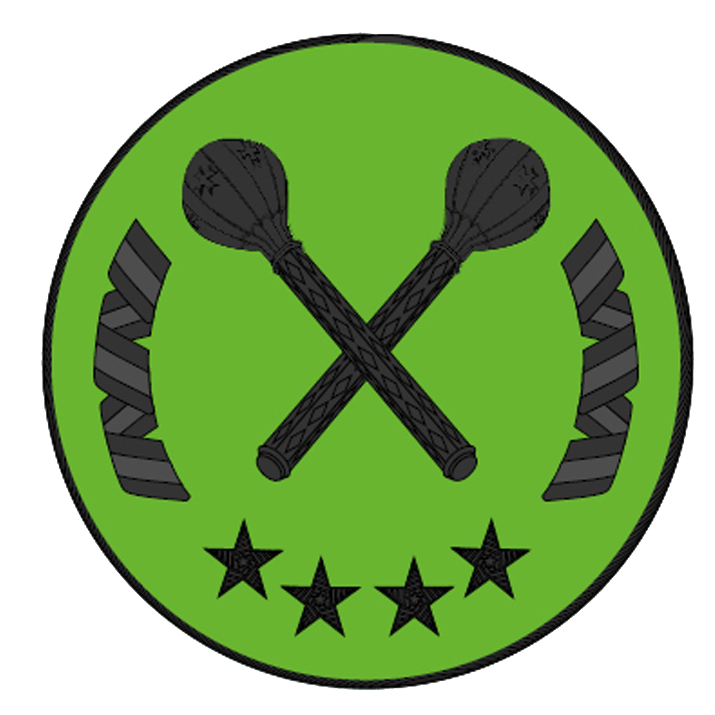 Emblem of the Chief of the General Staff of the Polish armed Forces – field uniform (1993).